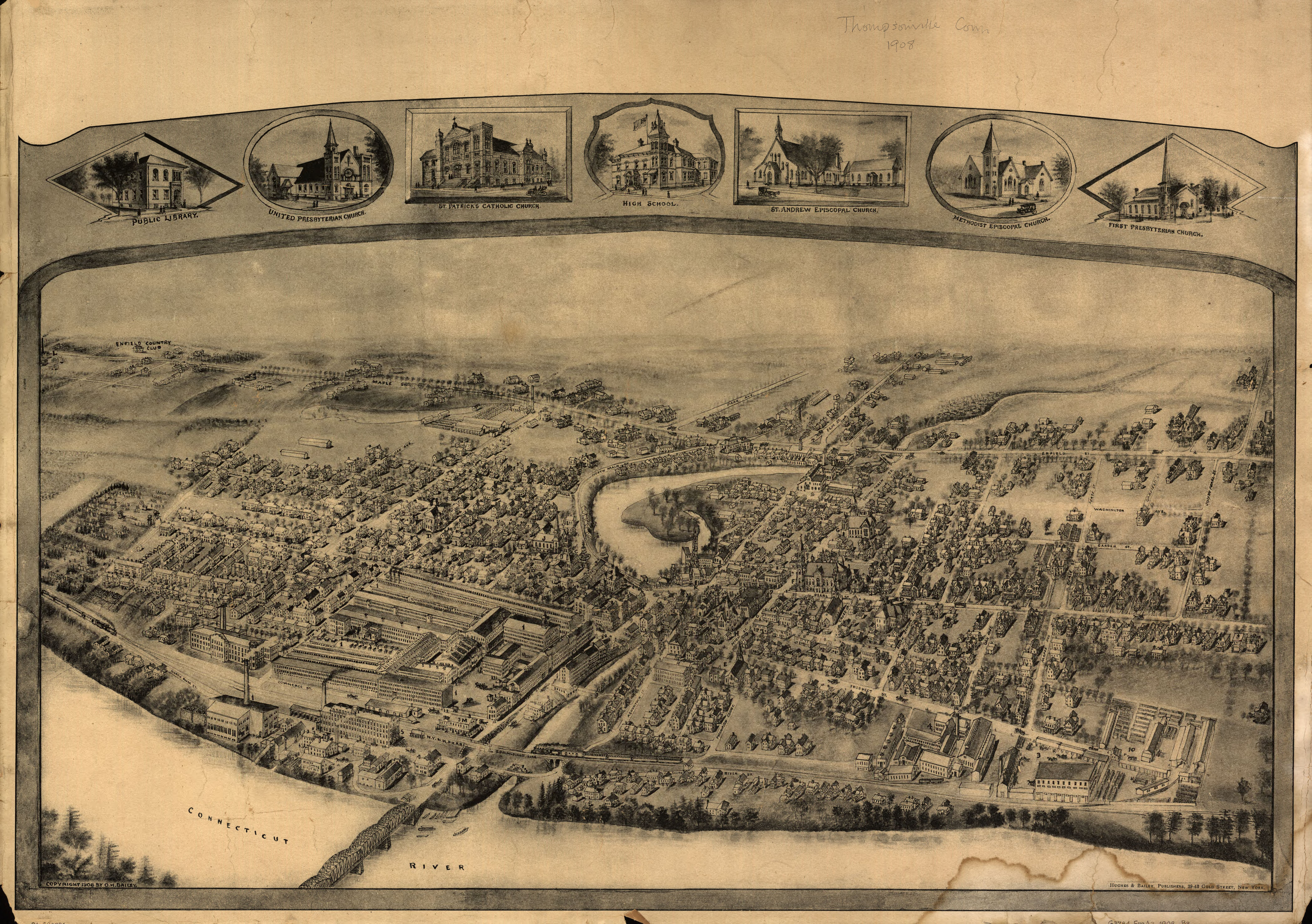 "Copyright 1908 by O.H. Bailey." Oriented with north toward the upper left. Available also through the Library of Congress Web site as a raster image. Includes ill. of buildings. LC copy stained, brittle, torn, and missing small corner sections of margin. Annotated in pencil in upper margin: Thompsonville Conn. 1908. PM3 Acquisitions control no.: 91-30